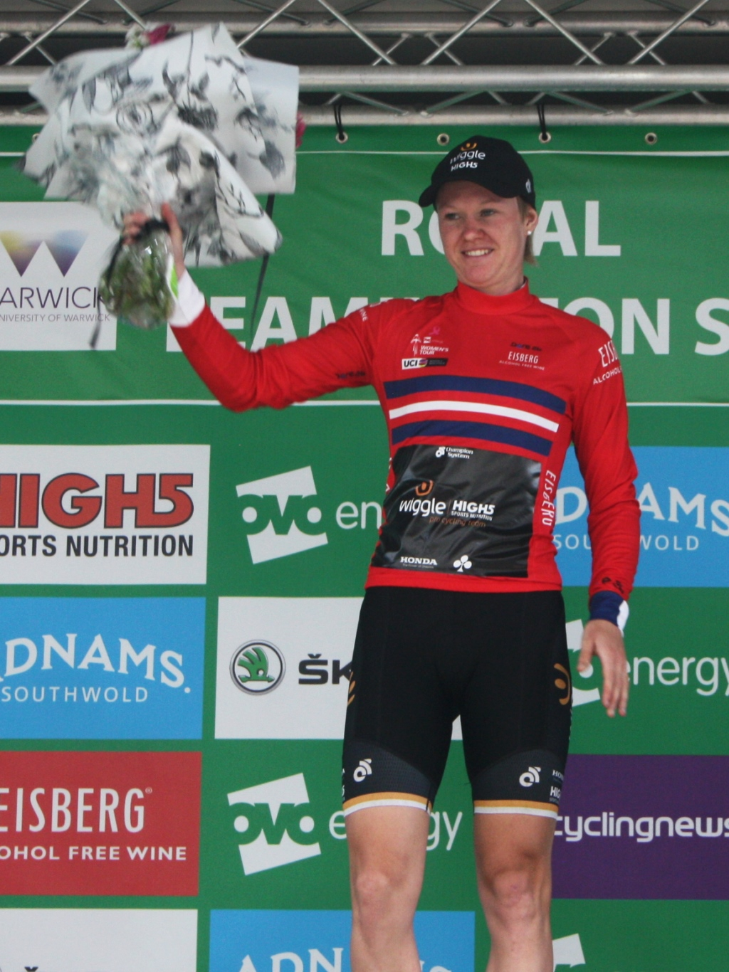 Jolien d'Hoore of the Wiggle High5 team wearing the Eisberg Sprints jersey after stage 3 of the 2017 Women's Tour.